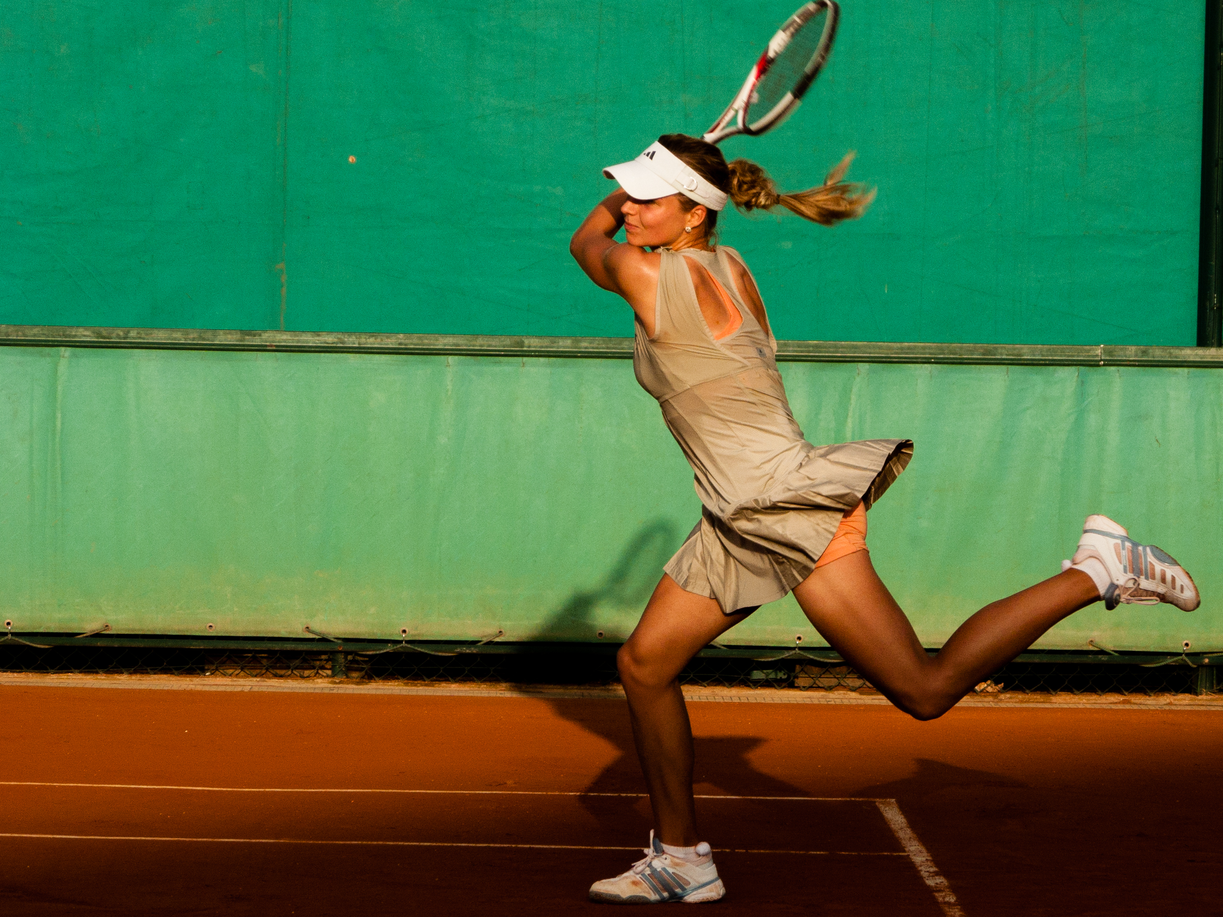 Follow me on facebook Twitter : @didyPhotography All the photographies I've made are now under CC0 (Creative Commons Zero) CC0 - learn more To the extent possible under law, Eddy BERTHIER has waived all copyright and related or neighboring rights to Roland Garros 2008 - Maria Kirilenko. This work is published from: France.